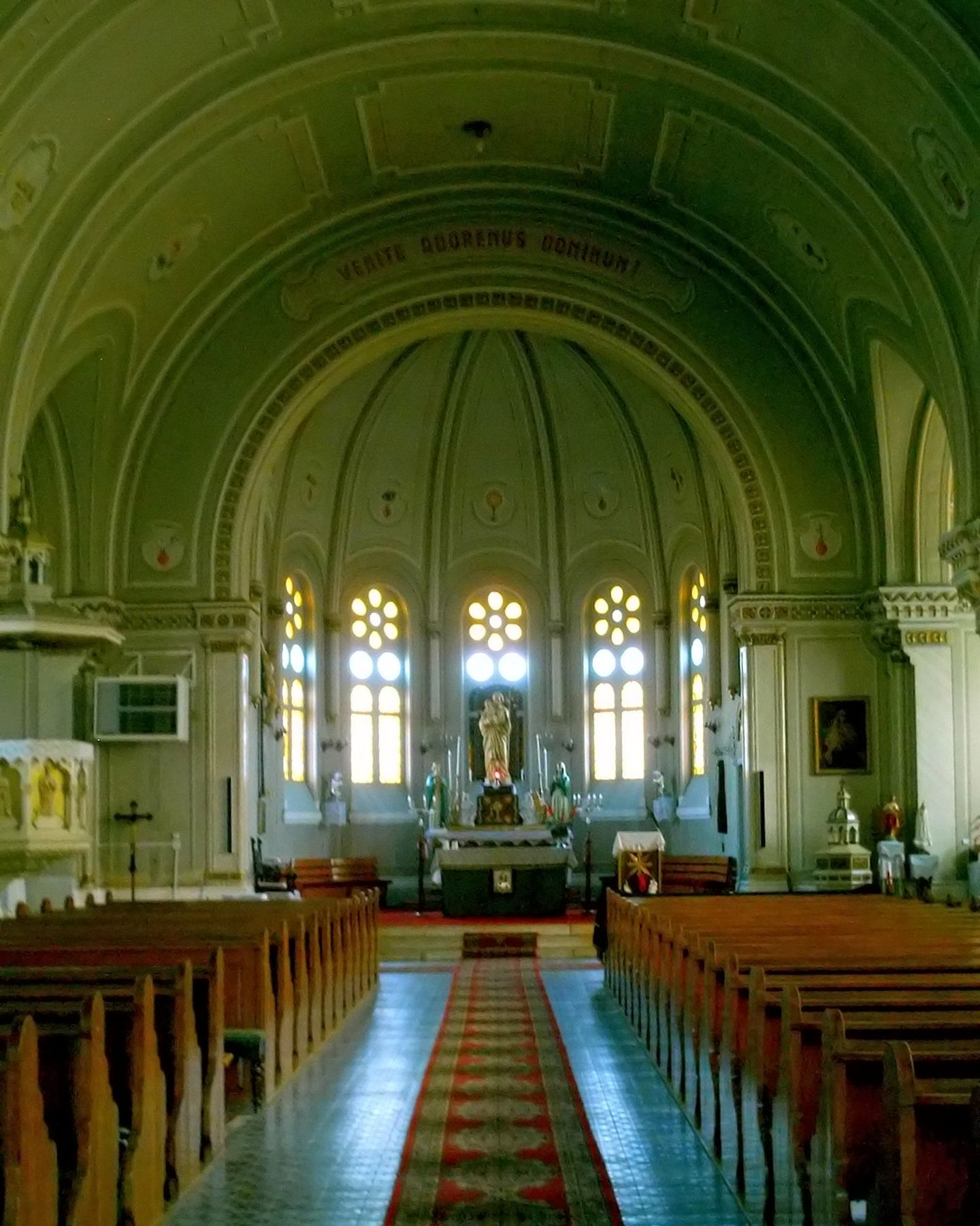 Catholic Church "St. Joseph" in Fratelia, Timisoara, Romania